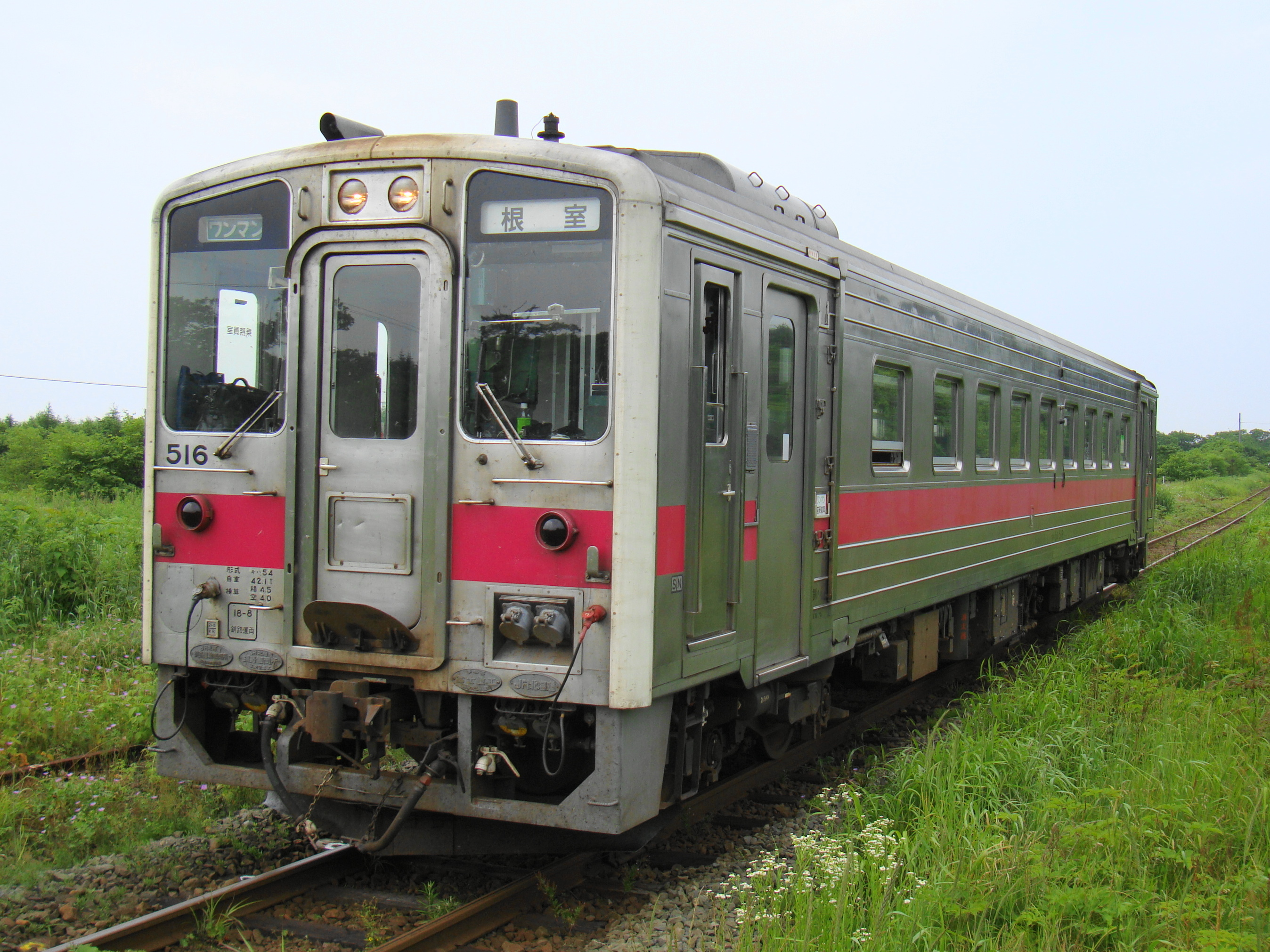 Kiha 54 516 Kushiro to Nemuro